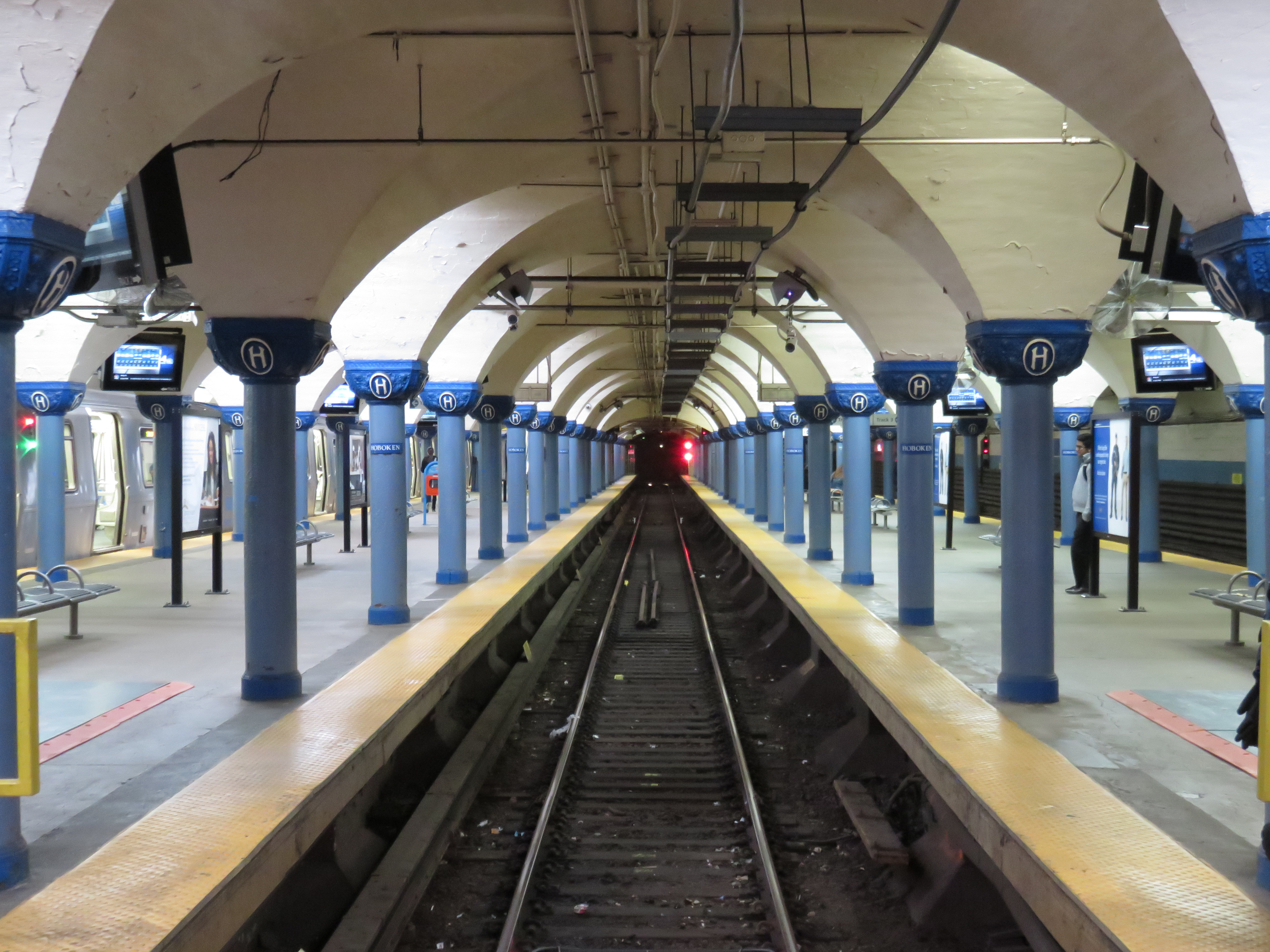 Platforms of the Hoboken Terminal PATH station in 2017